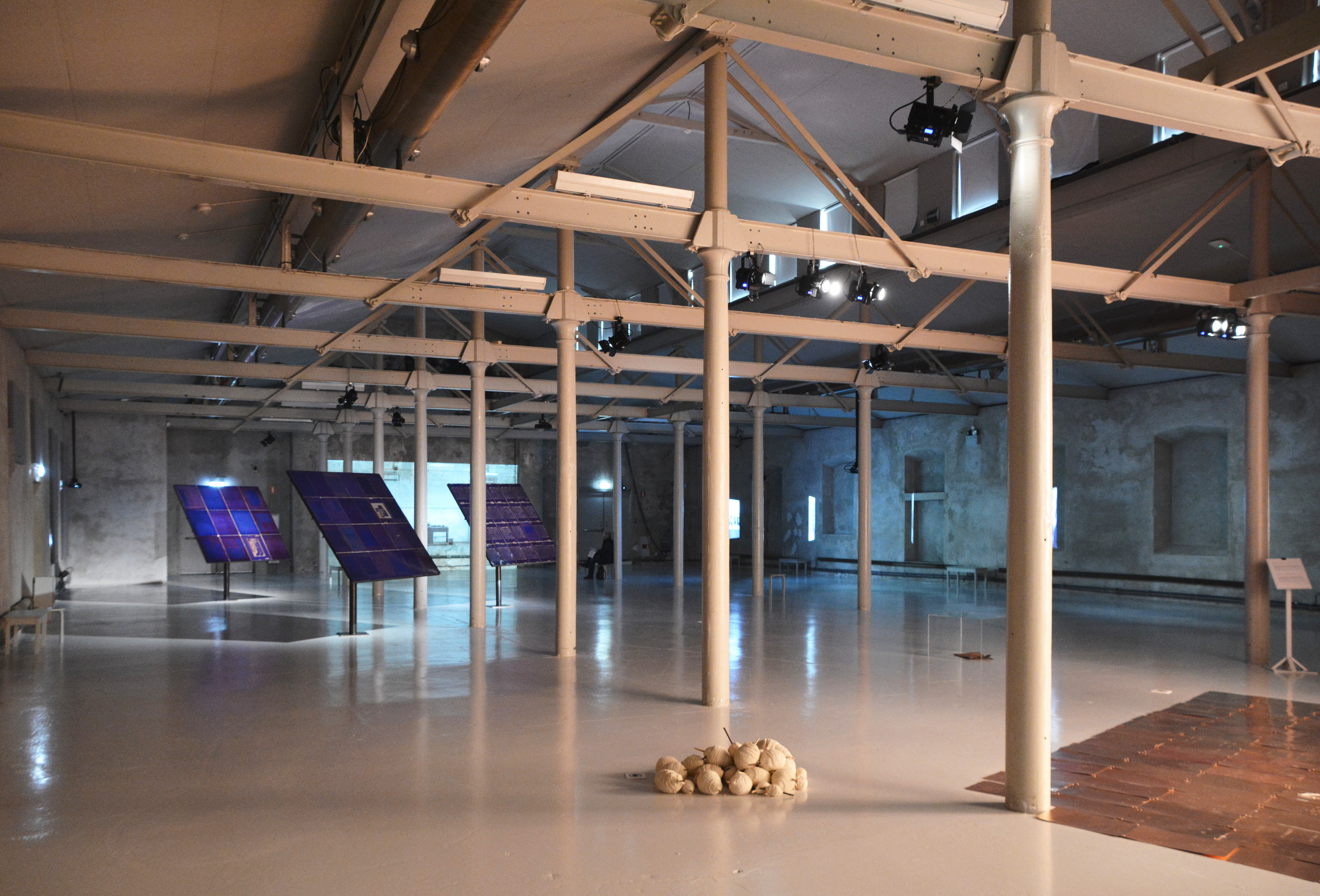 Art Gallery Färgfabriken, Stockholm